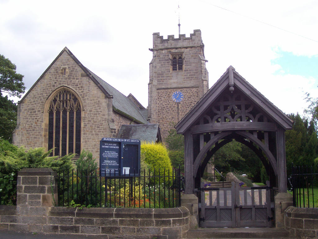 St Oswin's parish church and lychgate, Wylam, Northumberland, seen from the west